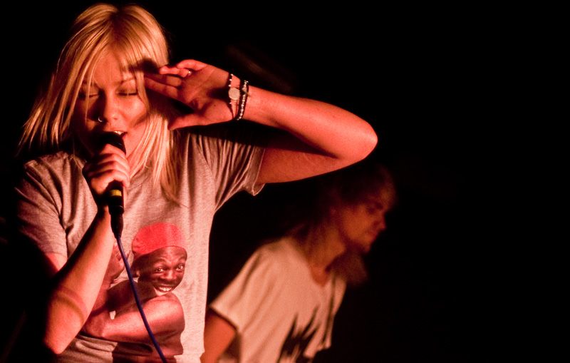 Australian band Tonight Alive live in 2012